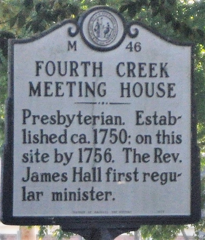 This marker is located at the site of the Fourth Creek Meeting House, a Presbyterian Congregation established in about 1750 in Rowan County, Province of North Carolina (currently Statesville, Irecell County, North Carolina. The first regular minister was James Hall